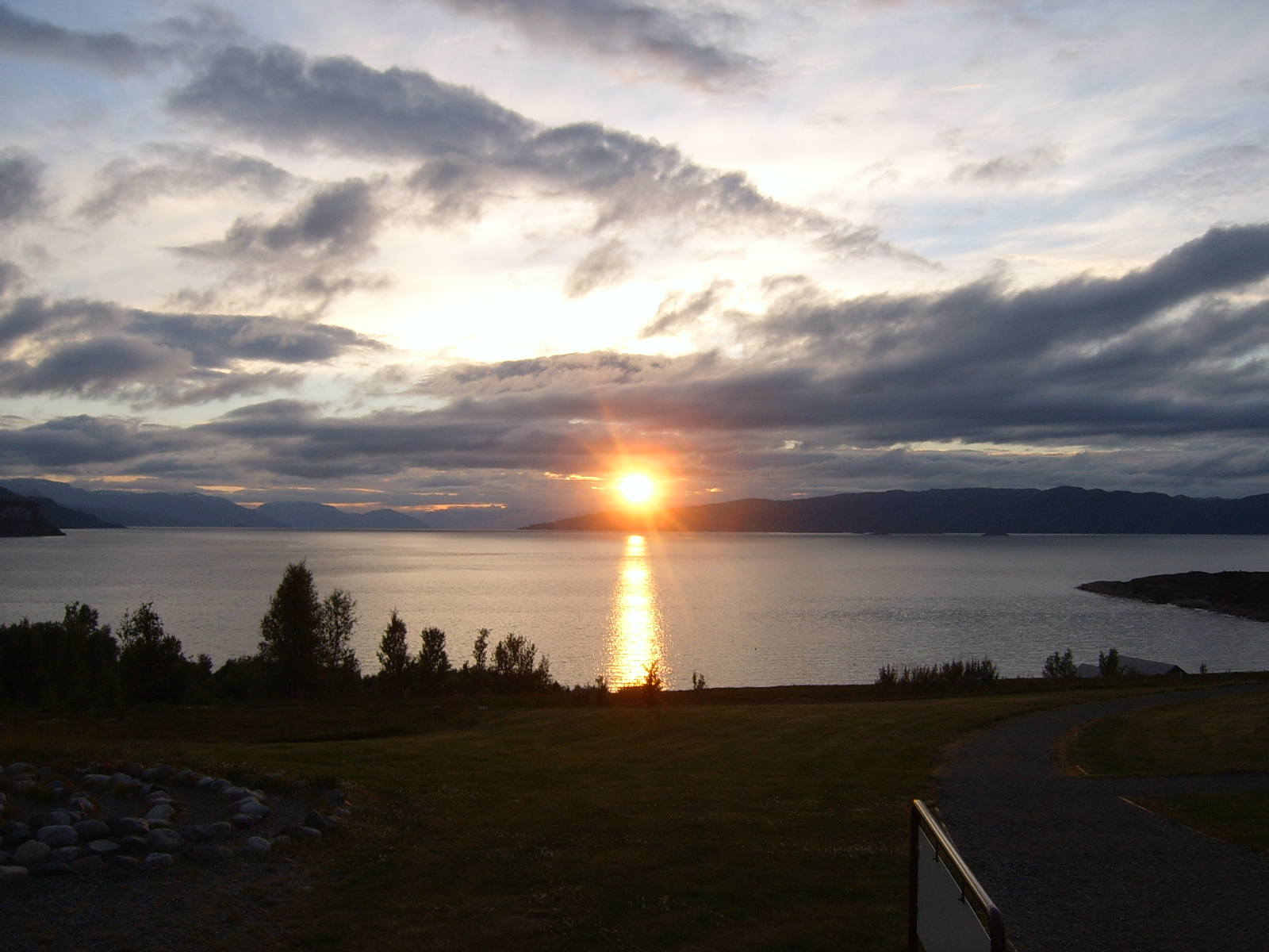 Altafjord, midnight sun, july 2005 Personal picture, I set it in public domain